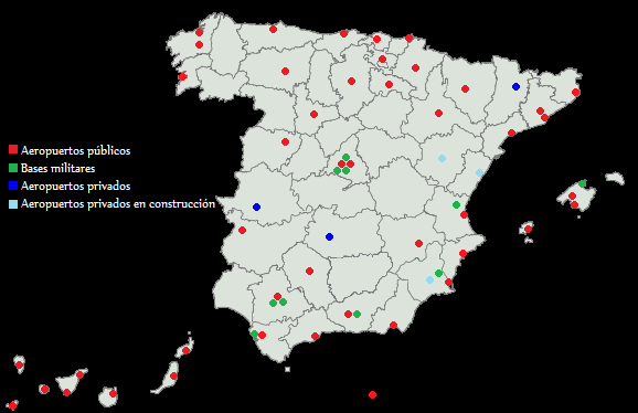 Airports in Spain